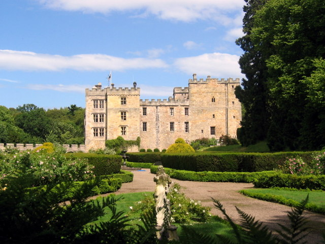 Chillingham Castle, south-eastern aspect